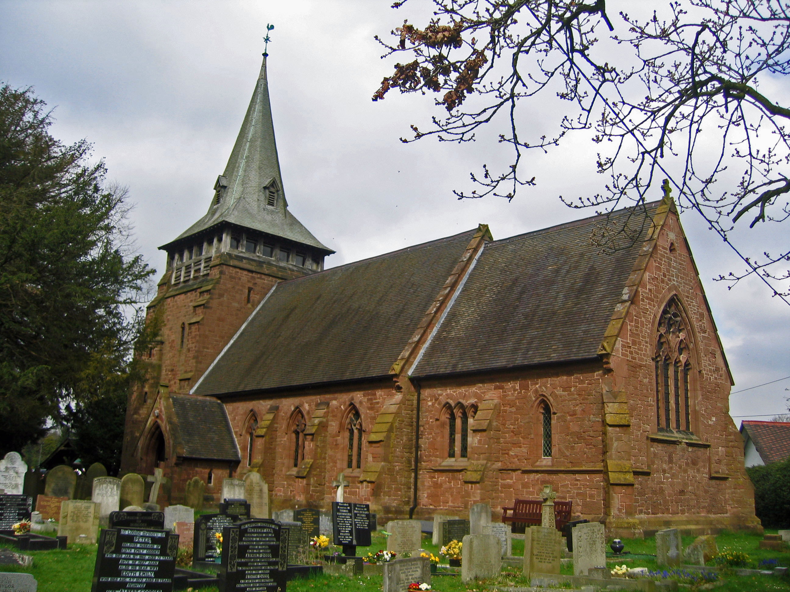 Photograph of the church from the southeast